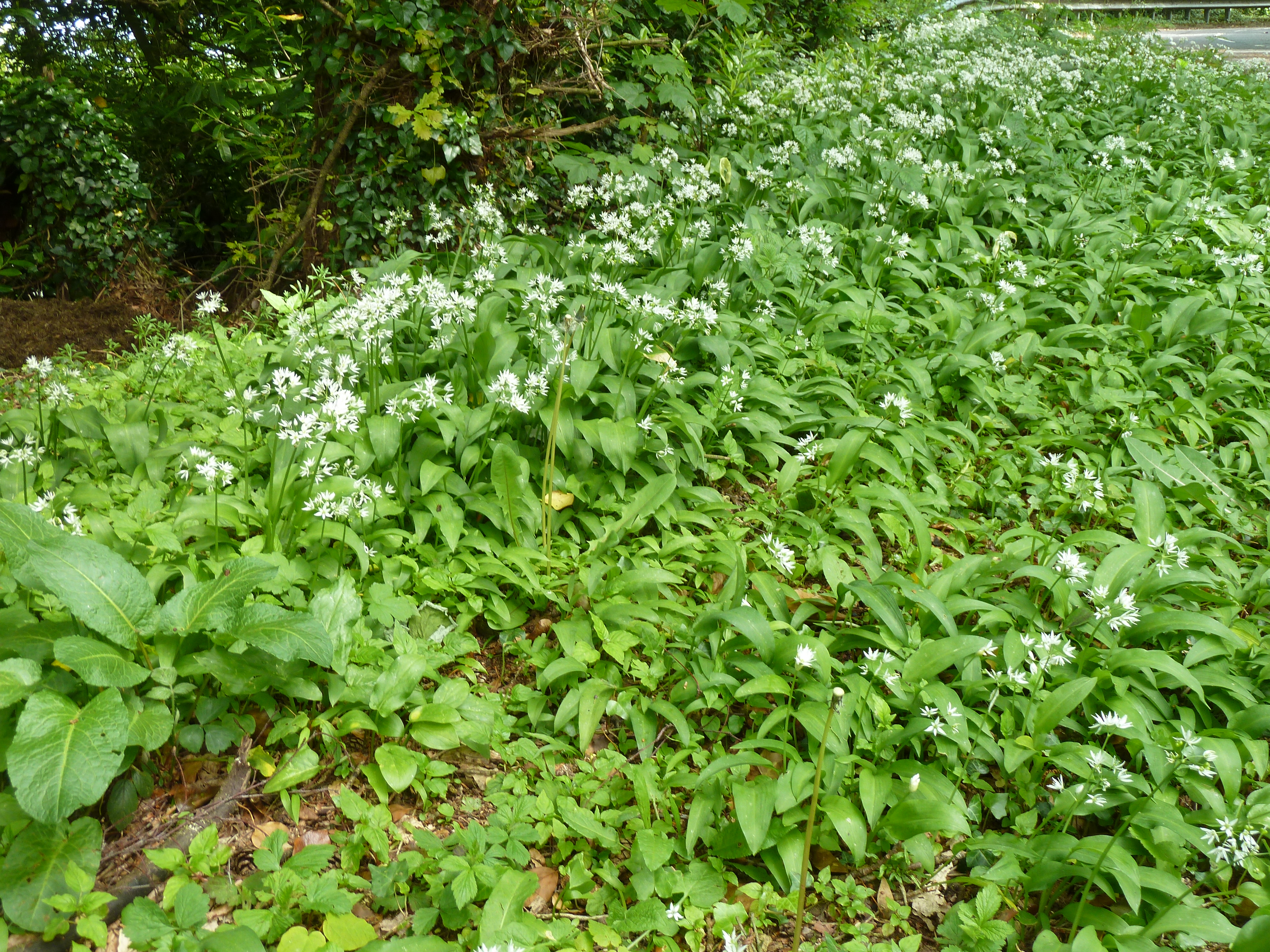 Hilden, Co. Antrim, Ireland late May Allium ursinum